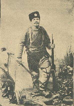 Portrait of IMARO Voivoda Stoyan Donkski.